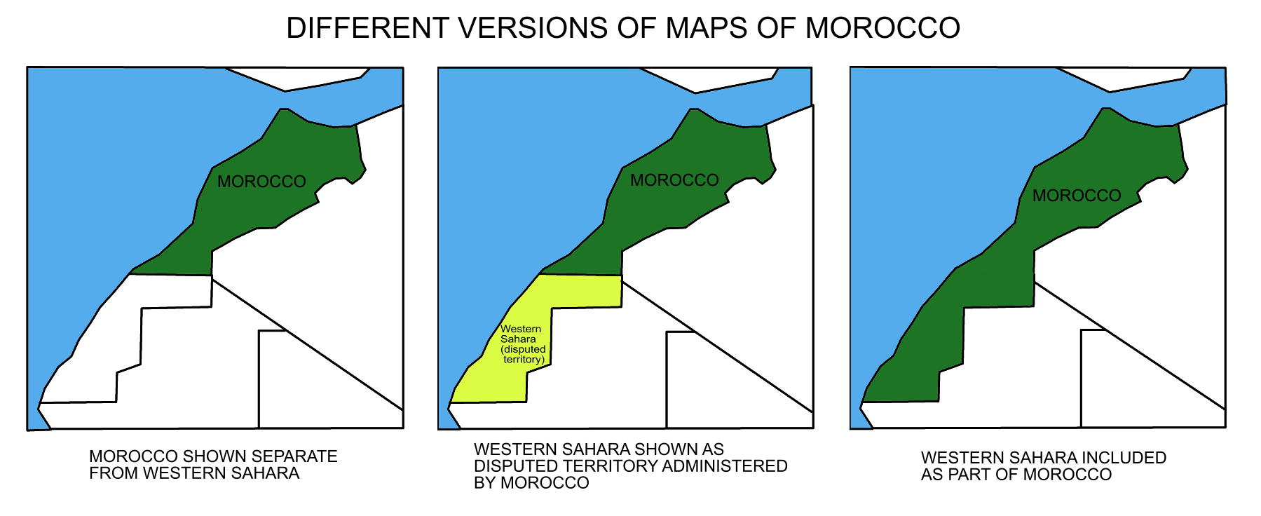 3 different types of maps often used to show Morocco. 1) Morocco is shown separate from Western Sahara. Examples: [1], [2], [3] 2) Western Sahara is shown as a territory under Moroccan control (sometimes shaded in dashed lines, or with a dotted border). Example: [4], [5], [6], [7] 3) Western Sahara is shown included as part of the country of Morocco. Examples: [8], [9] I made the image